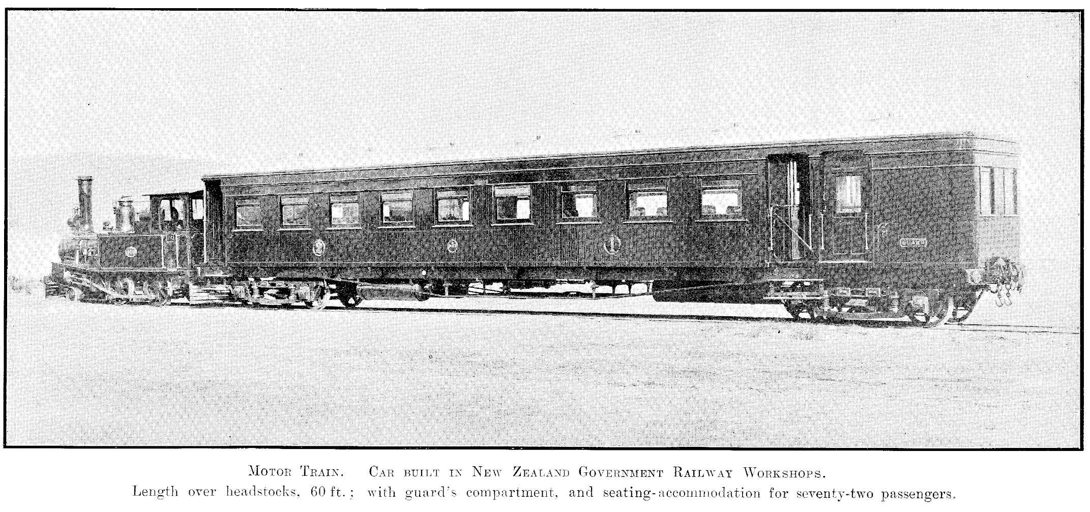 Car built in New Zealand Government Railway Workshops. Length over headstocks, 60ft.; with guard's compartment, and seating-accommodation for seventy-two passengers.